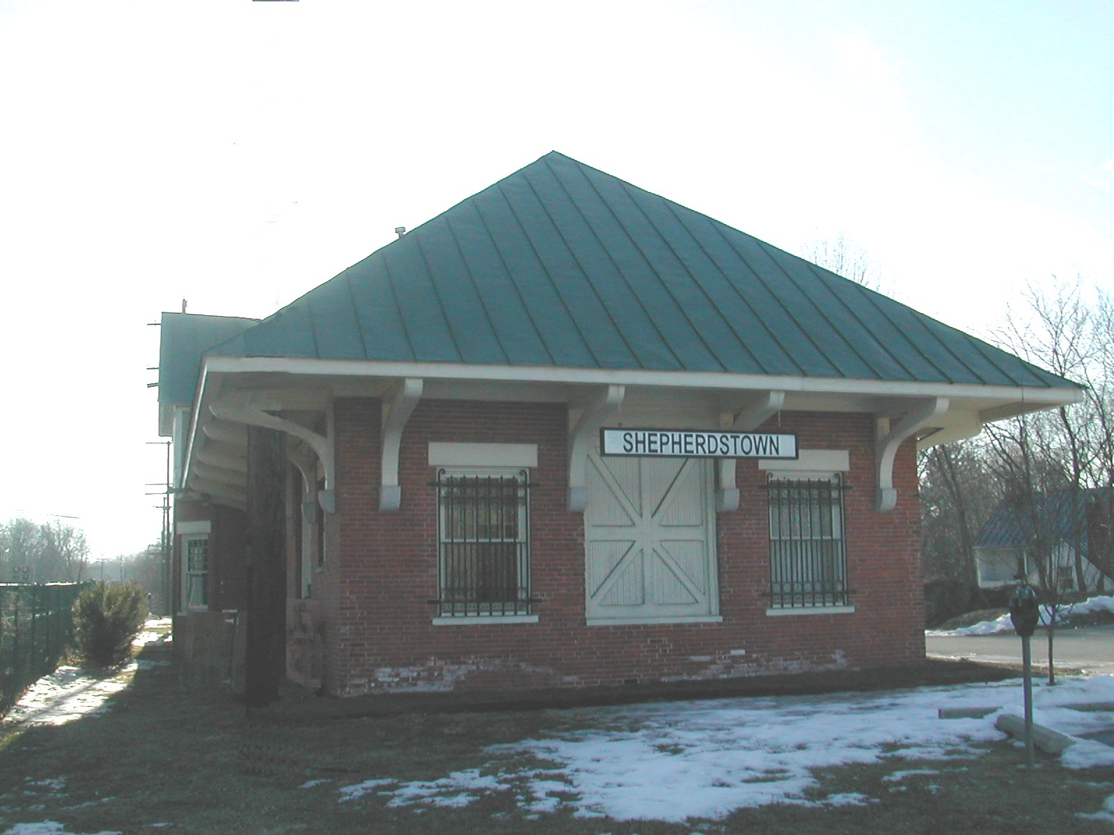 Shpherdstown WV SVRR Passenger Station. Personal picture, all rights released. Public domain.